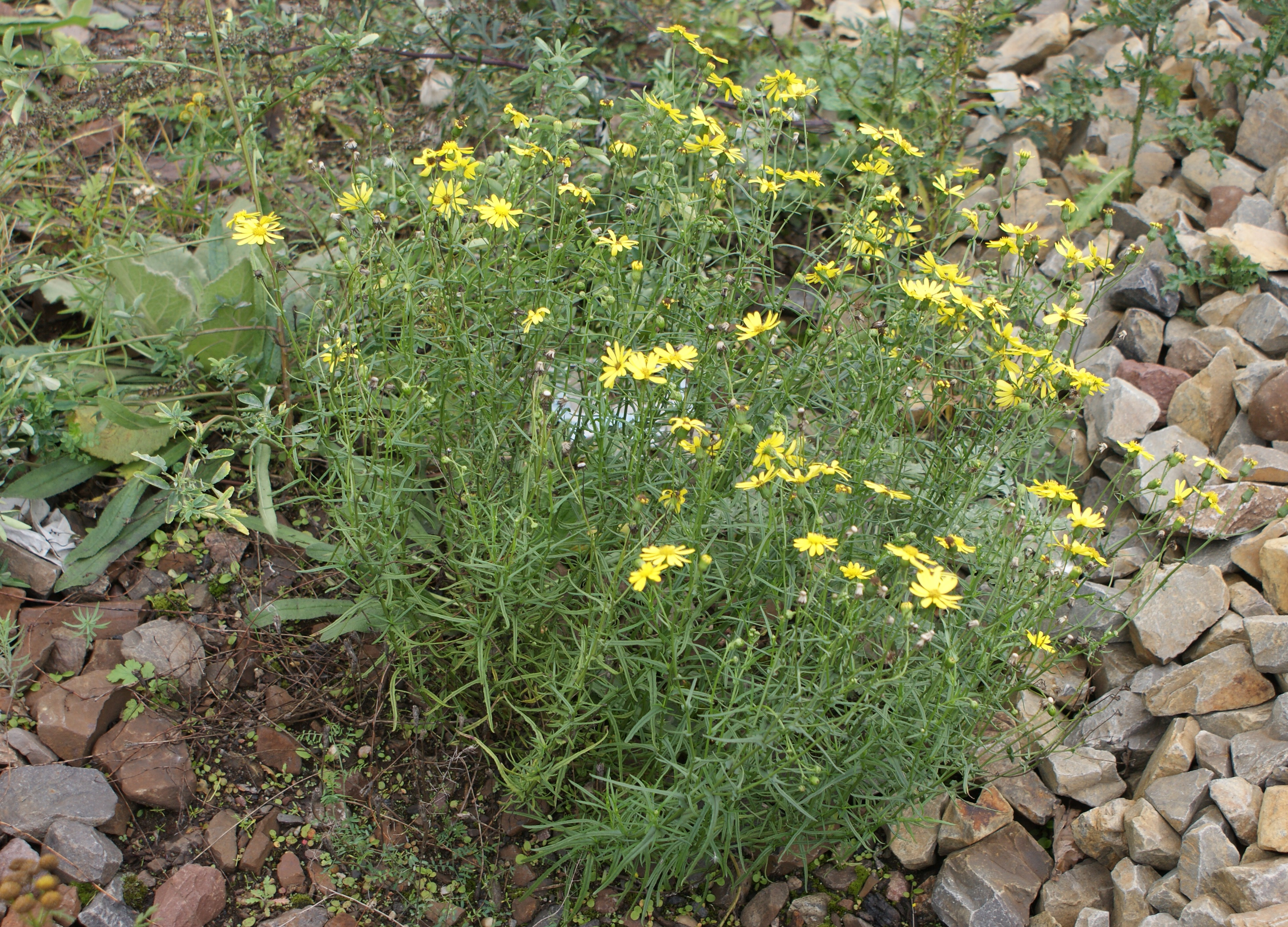 Senecio inaequidens in Szczecin (NW Poland)